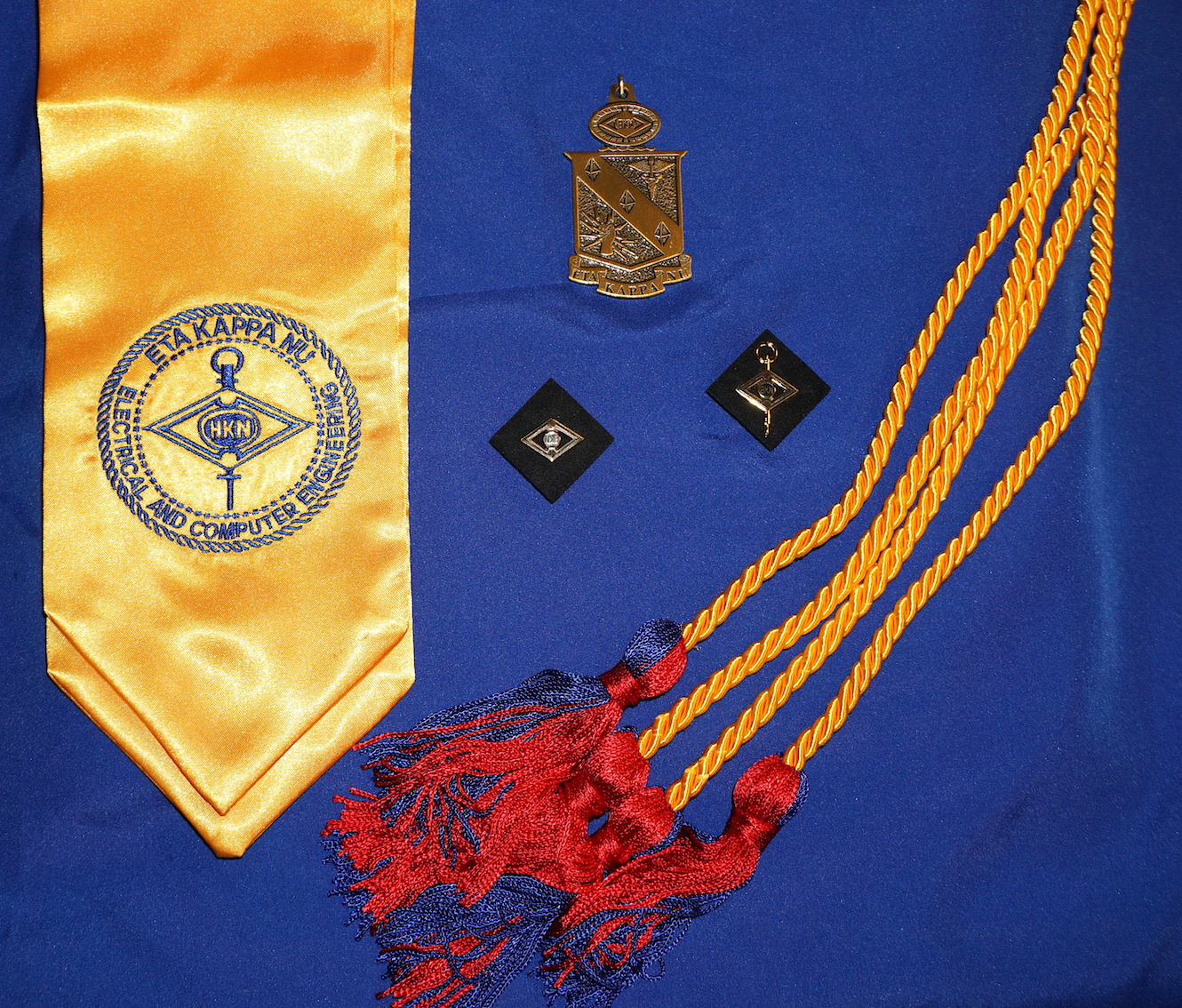 Stoles, Cords, and Pins used by Eta Kappa Nu for Inductions, Graduations, and Membership